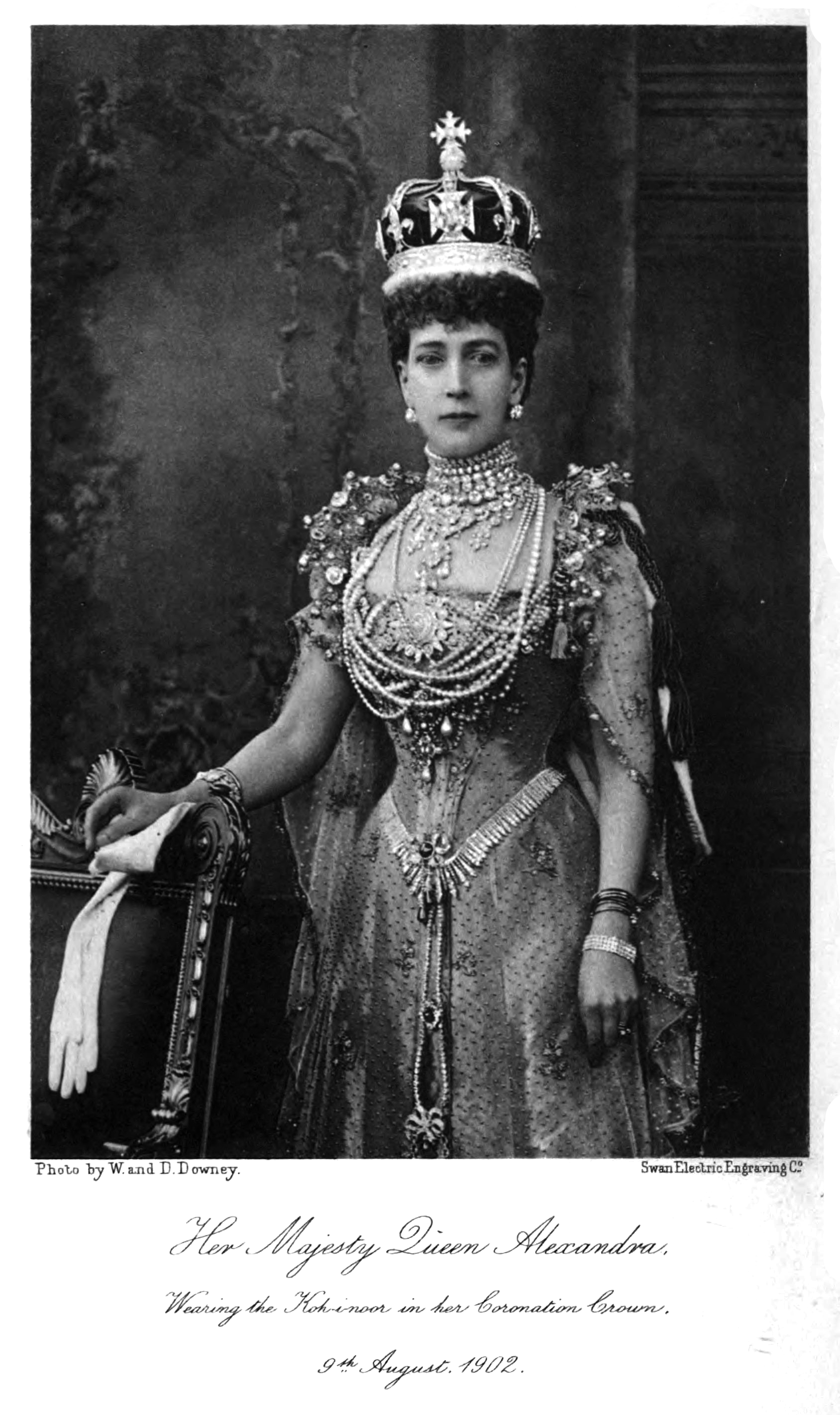 Queen Alexandra wearing the Kohinoor in her coronation crown. 9 August 1902